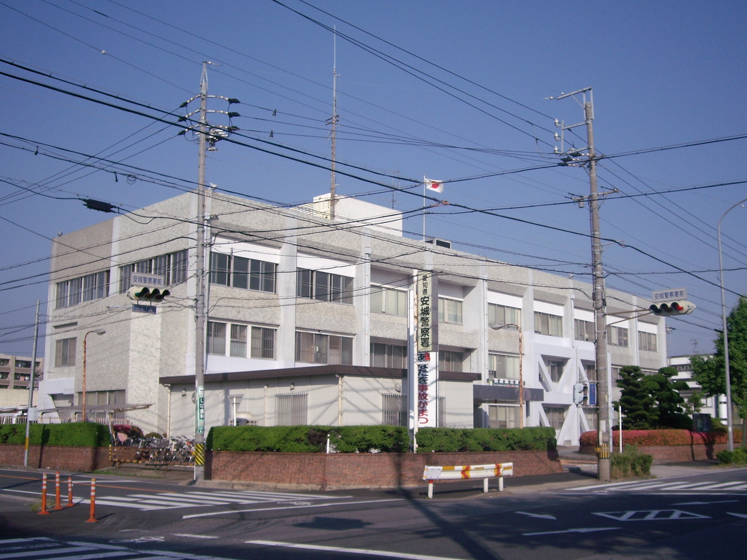 Anjo Police Station, in Anjo city.